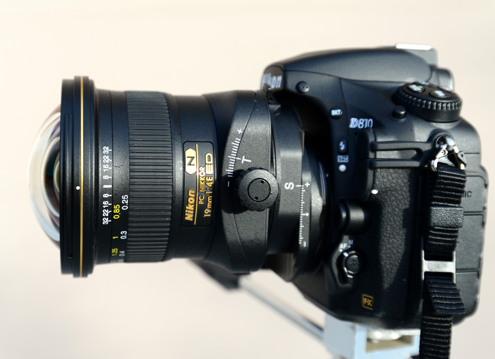 This is Nikon's new 19mm Nikkor PC-E ED f4 lens shift-and-tilt lens (introduced October 19, 2016), shown mounted on a Nikon D810 camera.